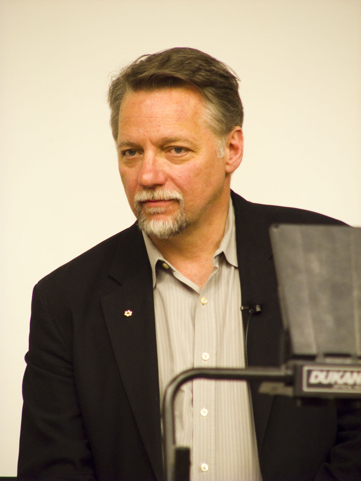 Ed Burtynsky came to Western. His photographs are made even more intimidating by his commentary.